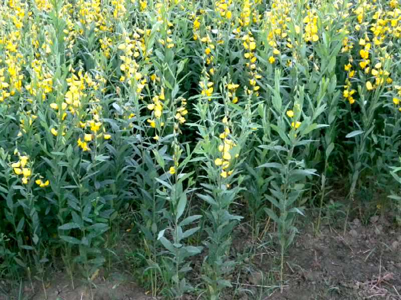 Crotalaria juncea L.